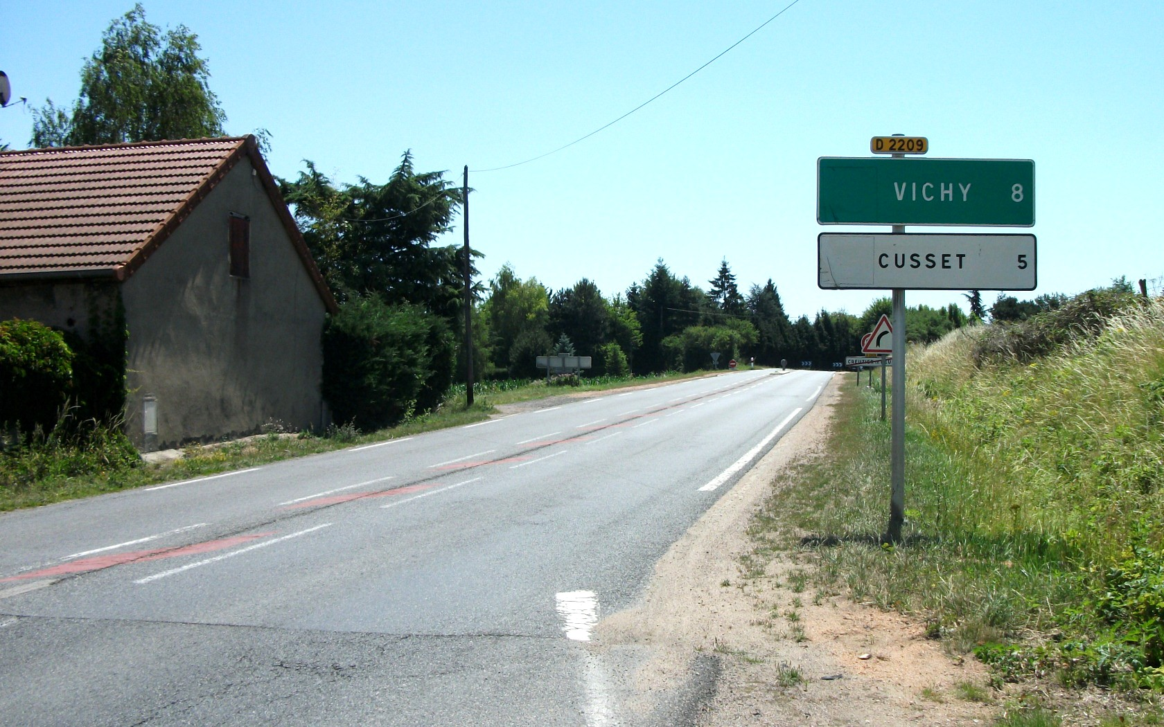 Departmental road 2209 at exit of Creuzier-le-Neuf, Allier, Auvergne, France, towards Vichy (directional road signs made in 1985).